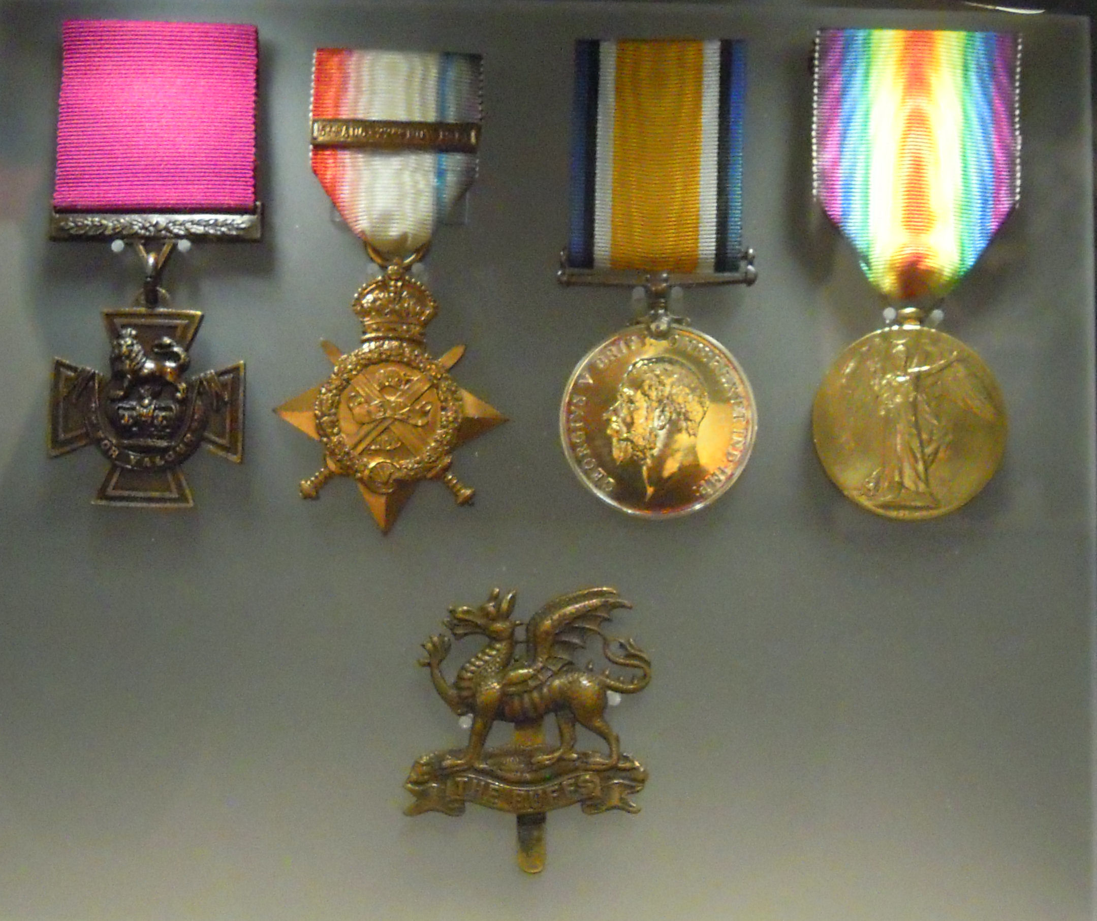 The medals and cap badge of William Cotter VC displayed in the National Army Museum in Chelsea in London